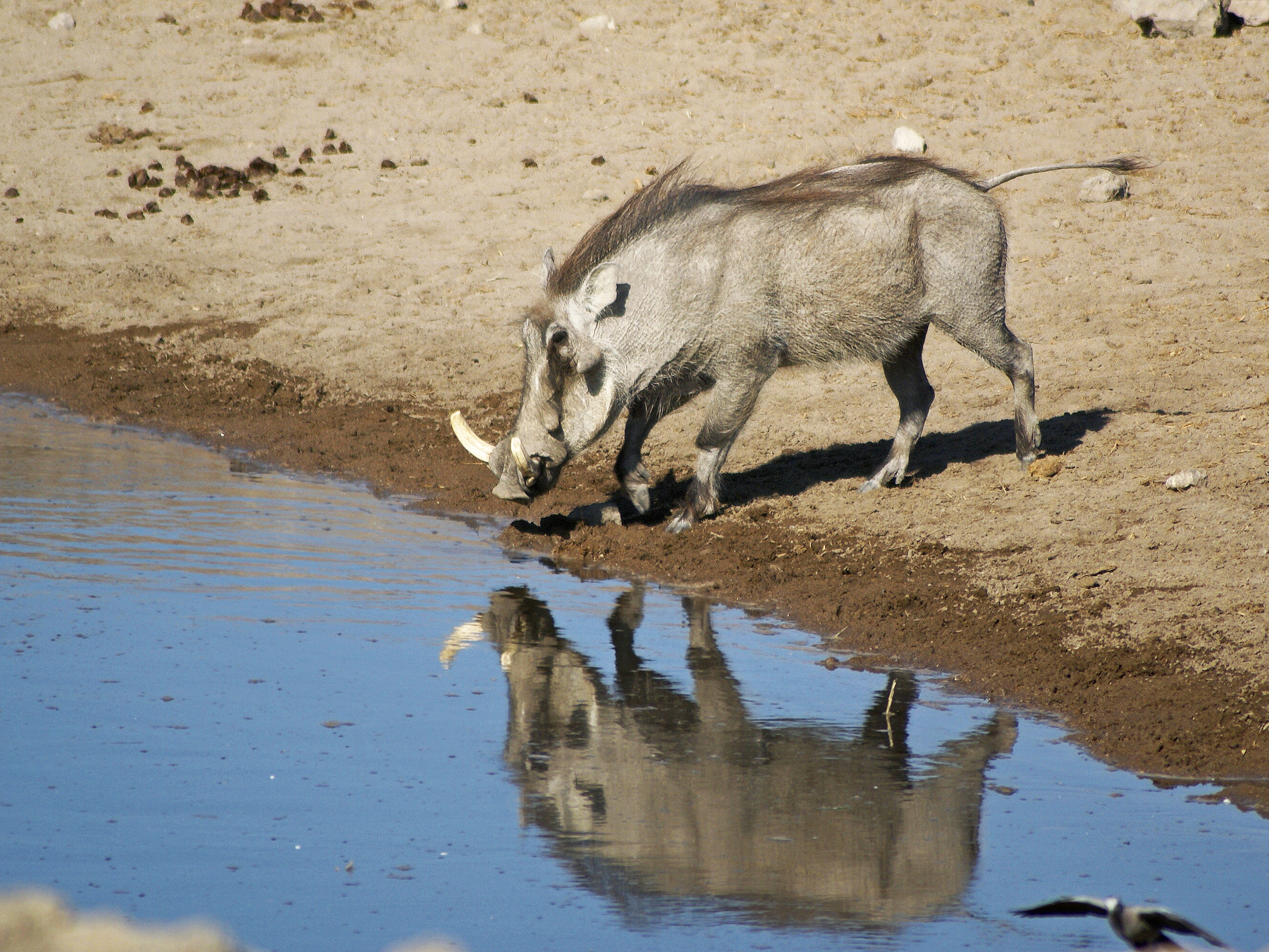 Warthog at Chudop waterhole, Etosha, Namibia.